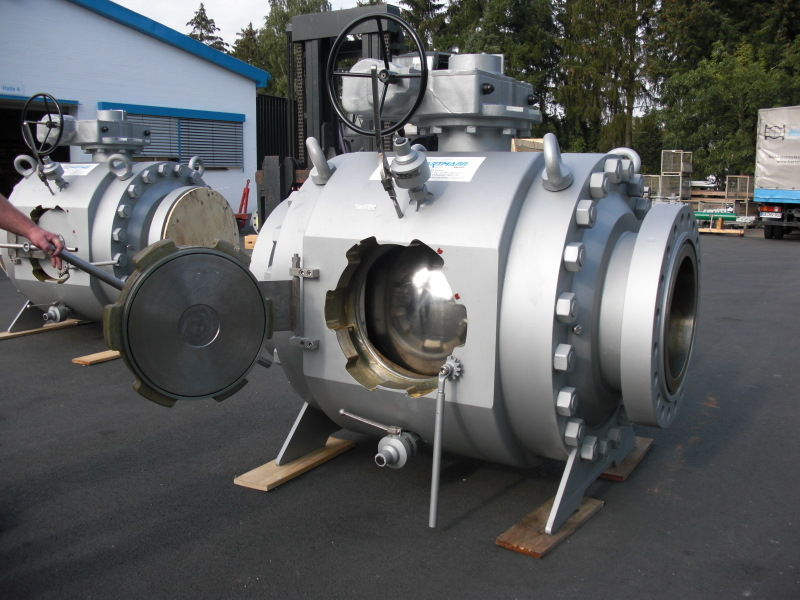 20" pigvalve (HartmannValvesGmbH)